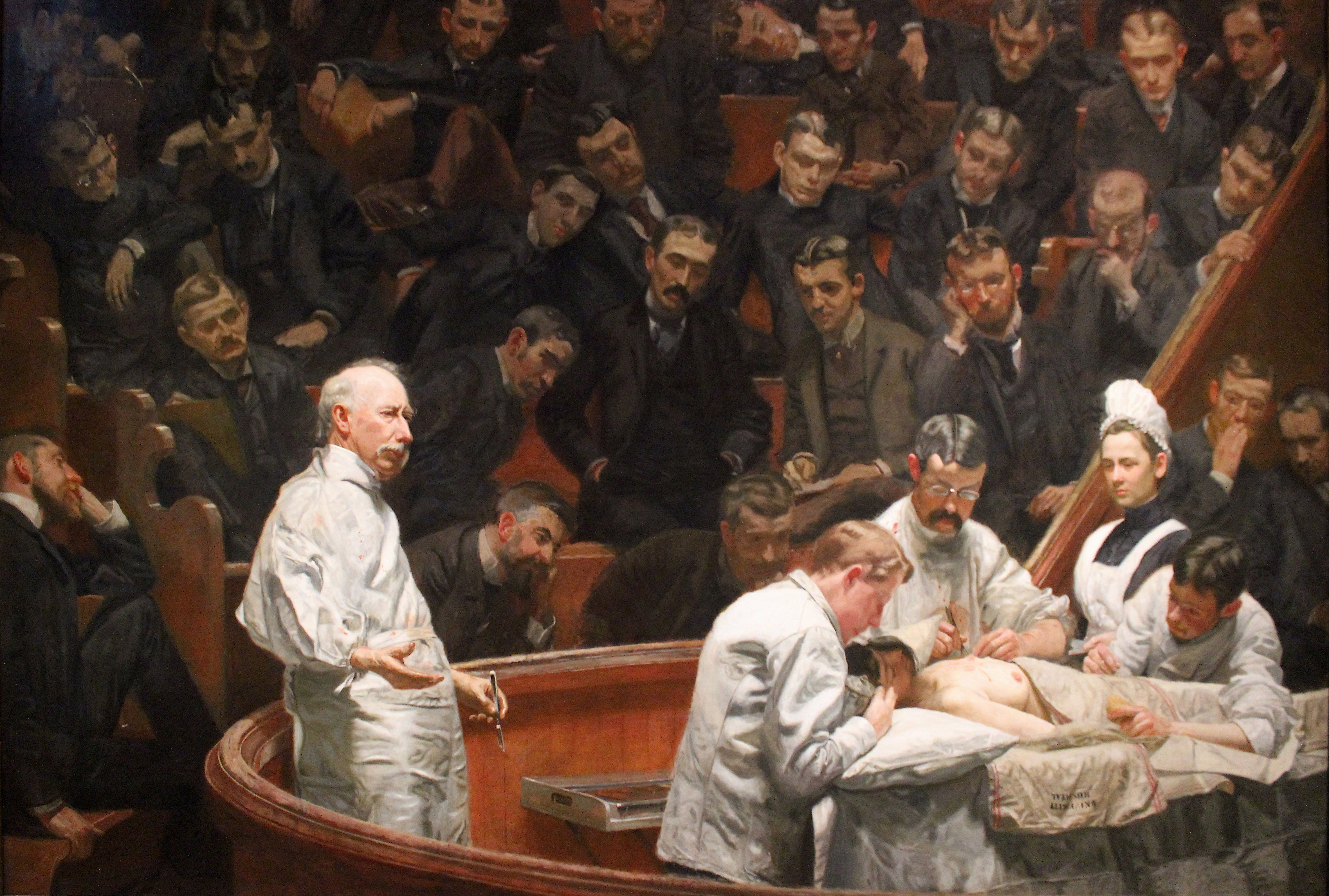 In 1889, students from the University of Pennsylvania School of Medicine commissioned Eakins to make a portrait of the retiring professor of surgery Dr. D. Hayes Agnew . Working day and night, Eakins completed the painting in three months, in time for it to be presented at the University commencement on May 1, 1889.